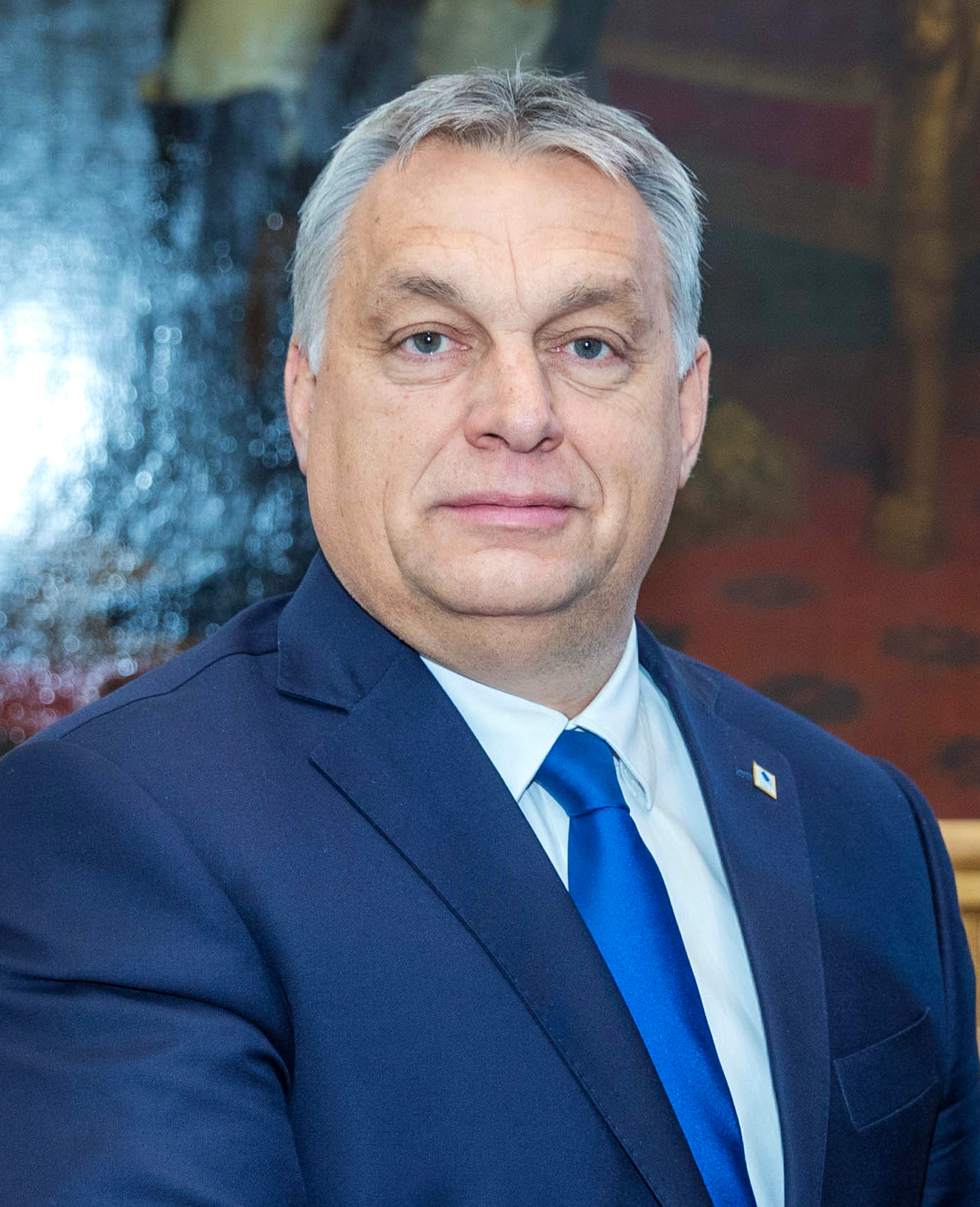 EPP Summit, Brussels, December 2018 (cropped)